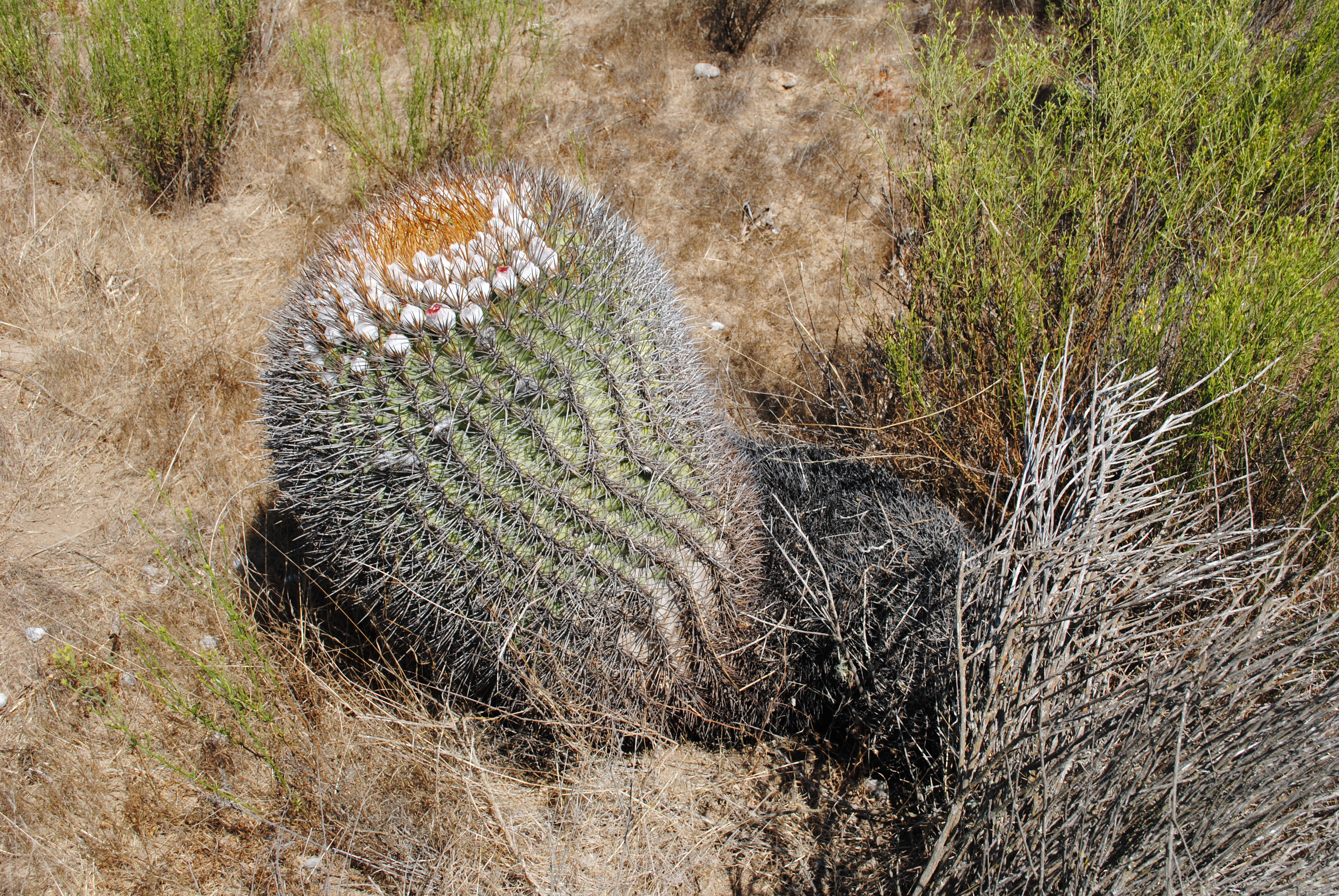 Eriosyce aurata is a Cactaceae, it's endemic for Chile. Place: Chile, Region de Coquimbo, Valle de Elqui, Quebrada de Talca, Los Rulos